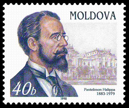 Pan Halippa (1883-1979). Stamp of Moldova